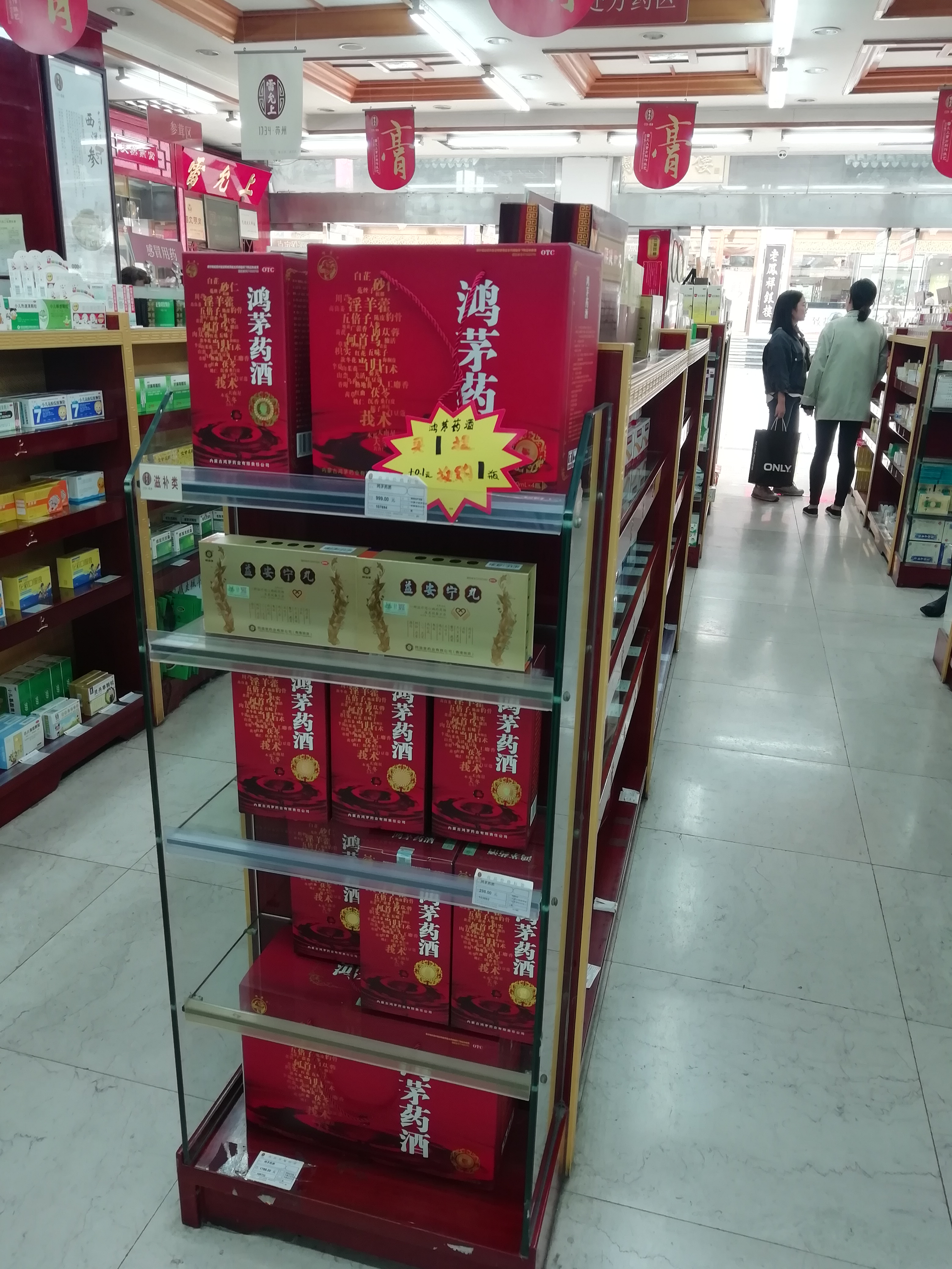 Just have a look, and I saw some Hongmao medicinal liquor on the shelf in a pharmacy in Suzhou. The price is at 298 yuan per bottle. Be careful, it is poisonous... 中文（中国大陆）: 突然在苏州的一家药房里看到货架上摆放着好多瓶鸿茅药酒，每瓶298元。小心有毒……